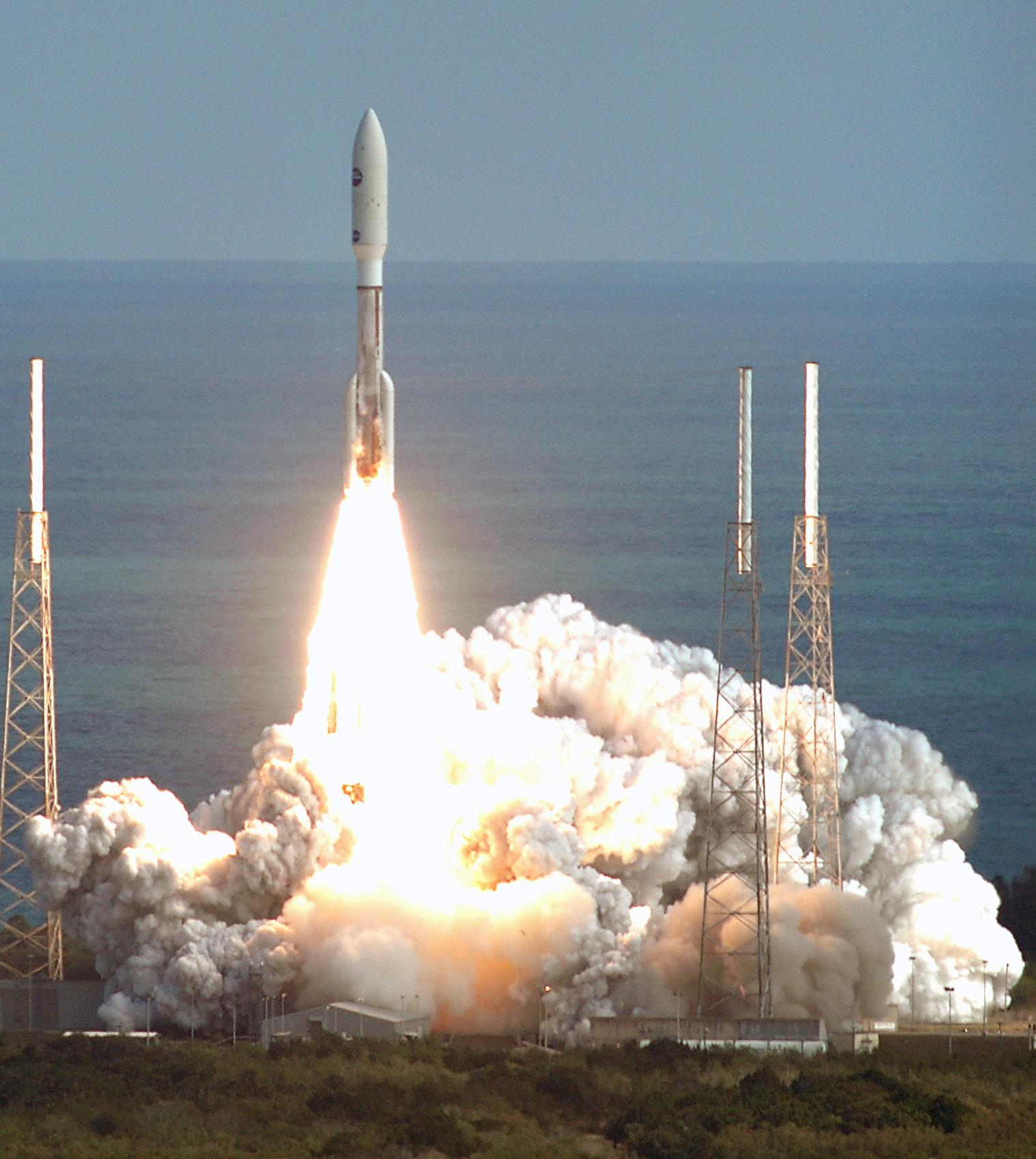 Viewed from the top of the Vehicle Assembly Building at Kennedy Space Center, NASA’s New Horizons spacecraft roars off the launch pad aboard an Atlas V rocket spewing flames and smoke. Liftoff was on time at 2 p.m. EST from Complex 41 on Cape Canaveral Air Force Station in Florida. This was the third launch attempt in as many days after scrubs due to weather concerns. The compact, 1,050-pound piano-sized probe will get a boost from a kick-stage solid propellant motor for its journey to Pluto. New Horizons will be the fastest spacecraft ever launched, reaching lunar orbit distance in just nine hours and passing Jupiter 13 months later. The New Horizons science payload, developed under direction of Southwest Research Institute, includes imaging infrared and ultraviolet spectrometers, a multi-color camera, a long-range telescopic camera, two particle spectrometers, a space-dust detector and a radio science experiment. The dust counter was designed and built by students at the University of Colorado, Boulder. The launch at this time allows New Horizons to fly past Jupiter in early 2007 and use the planet’s gravity as a slingshot toward Pluto. The Jupiter flyby trims the trip to Pluto by as many as five years and provides opportunities to test the spacecraft’s instruments and flyby capabilities on the Jupiter system. New Horizons could reach the Pluto system as early as mid-2015, conducting a five-month-long study possible only from the close-up vantage of a spacecraft.